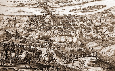 Storming of Frankfurt (Oder) by the Swedes during the Thirty Years' War